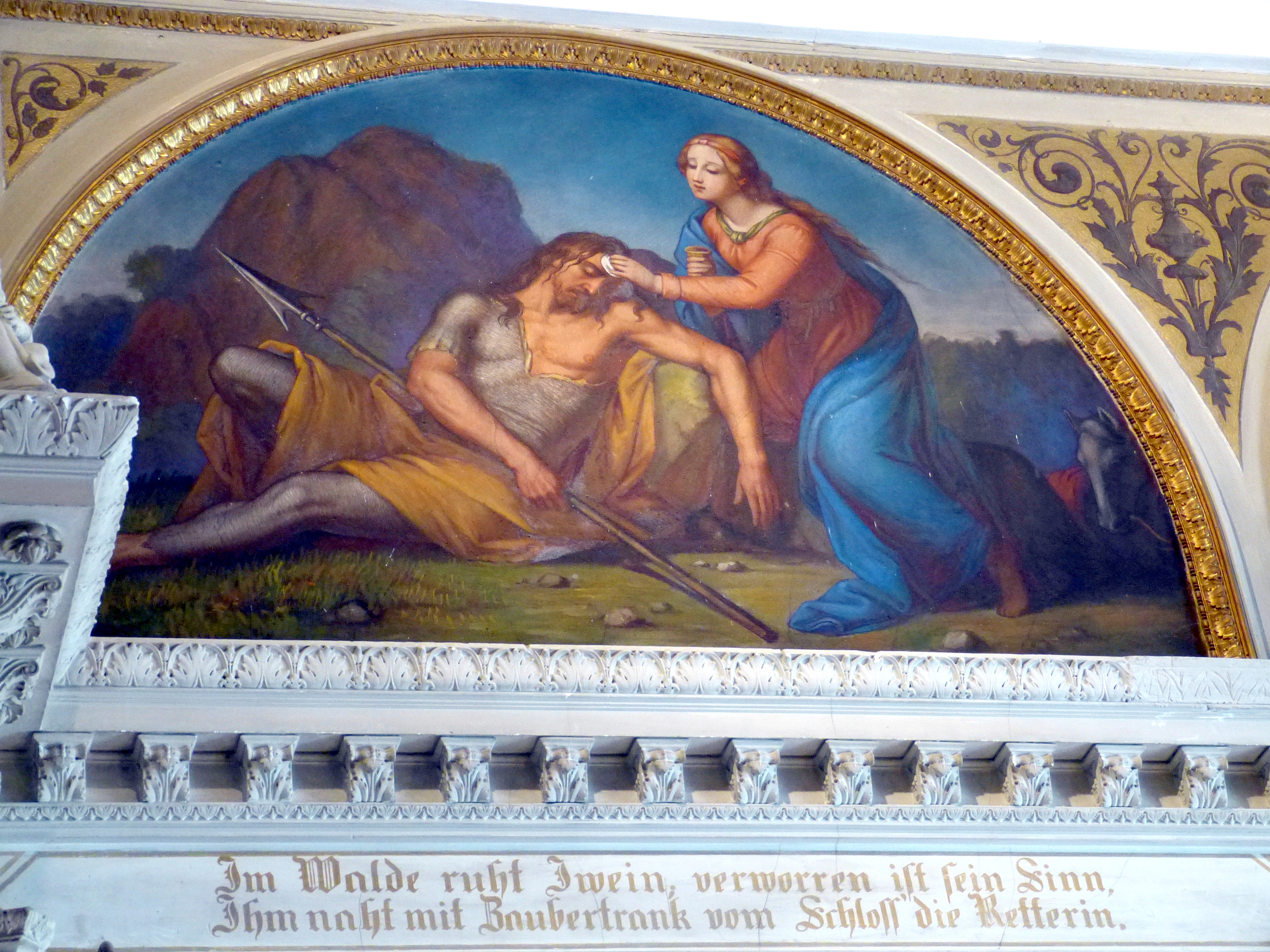 Schwerin Castle ( Mecklenburg ). Legend room ( 1851 ): Yvain is rescued from madness.